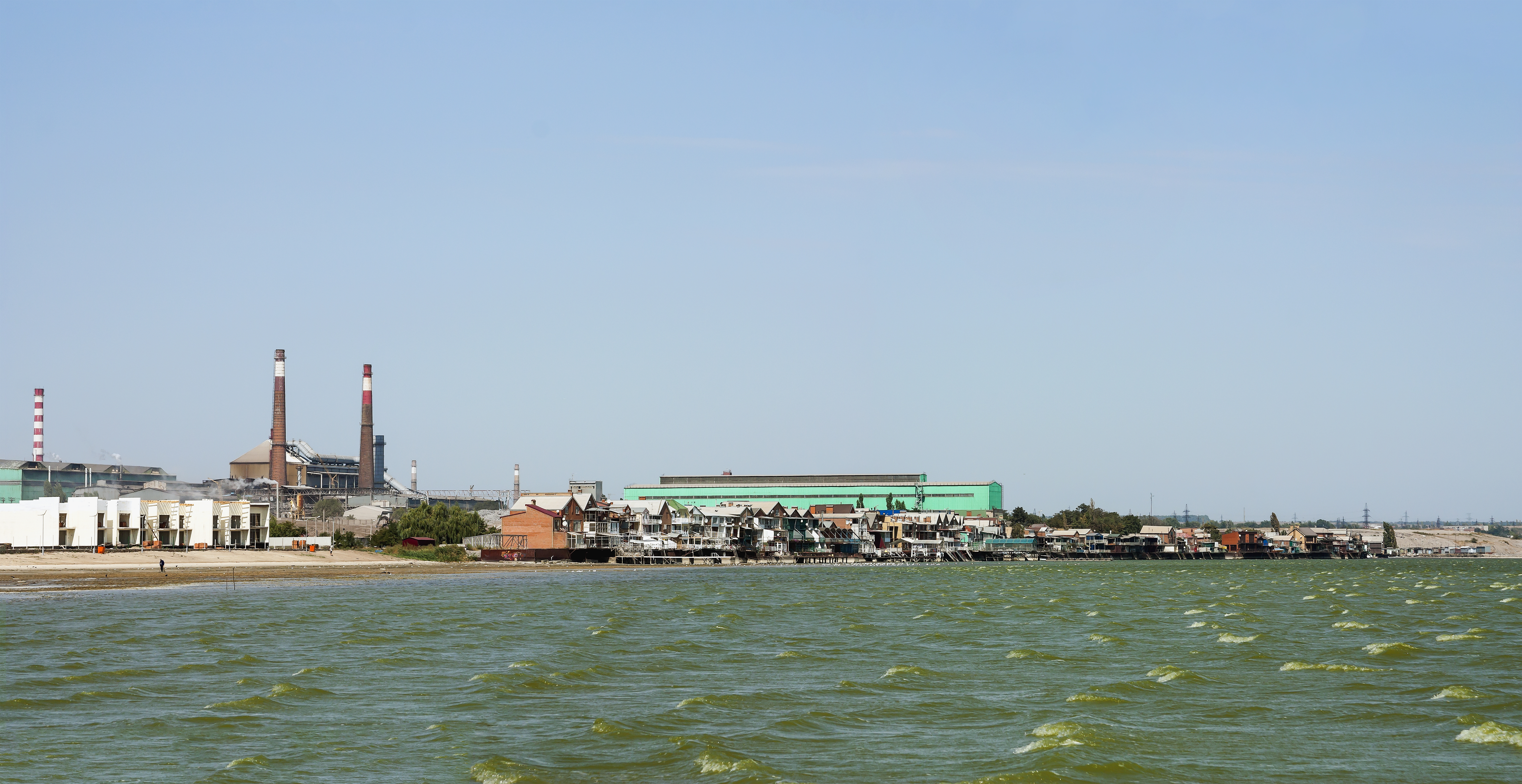 Buildings of the Taganrog Metallurgical Plant with cottage development in the foreground. View of the embankment to the Gulf of Taganrog.